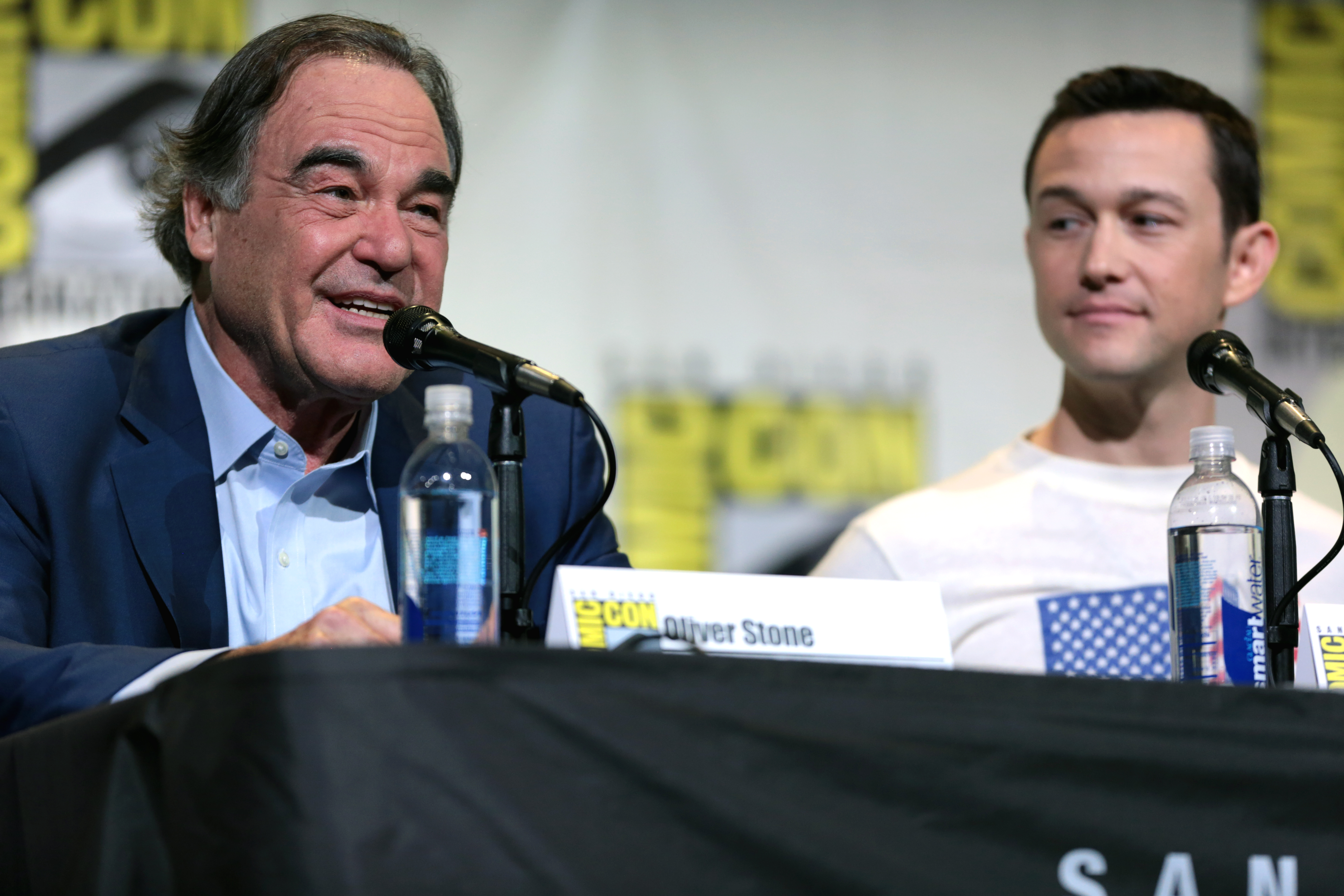 Oliver Stone and Joseph Gordon-Levitt speaking at the 2016 San Diego Comic Con International, for "Snowden", at the San Diego Convention Center in San Diego, California.